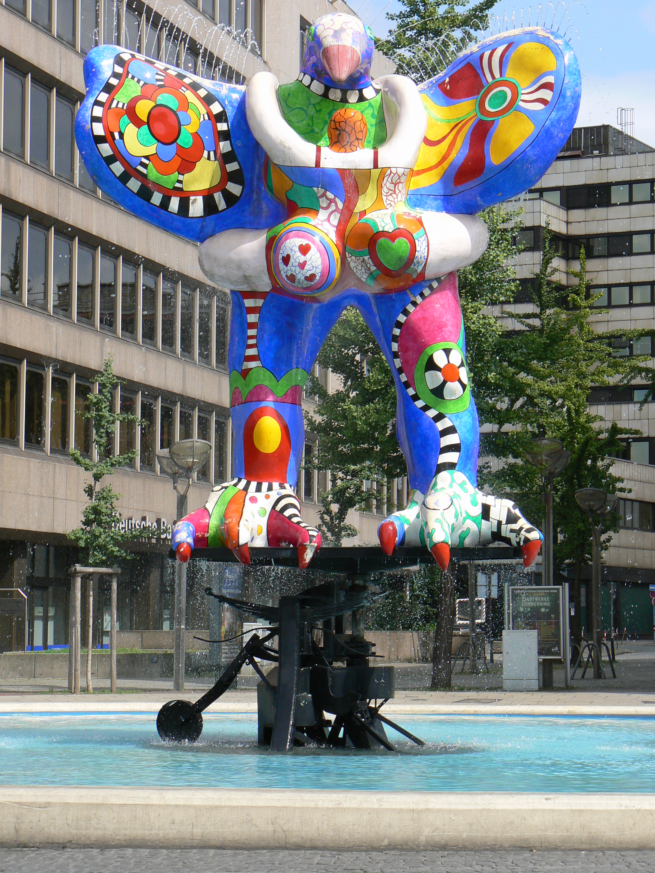 Fountain Lifesaver (1991/3) by Niki de Saint Phalle/Jean Tinguely in Duisburg/Germany